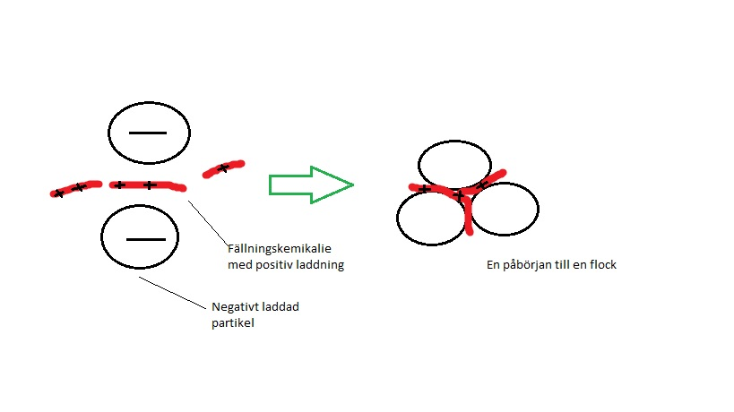 flock